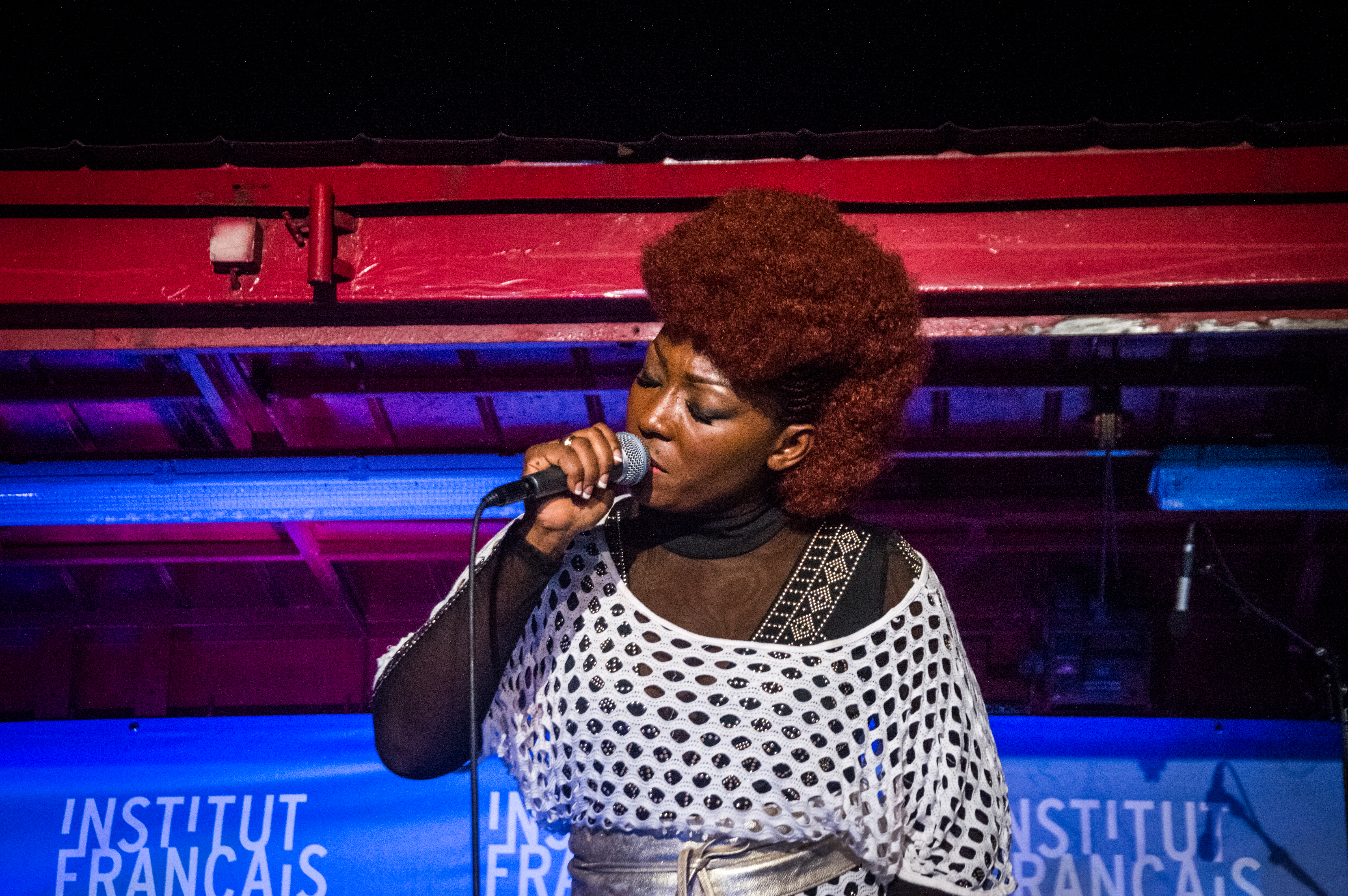 L'artiste Lynda Raymonde pendant la Fête de la musique 2017 devant l'Institut Français du Cameroun - Douala